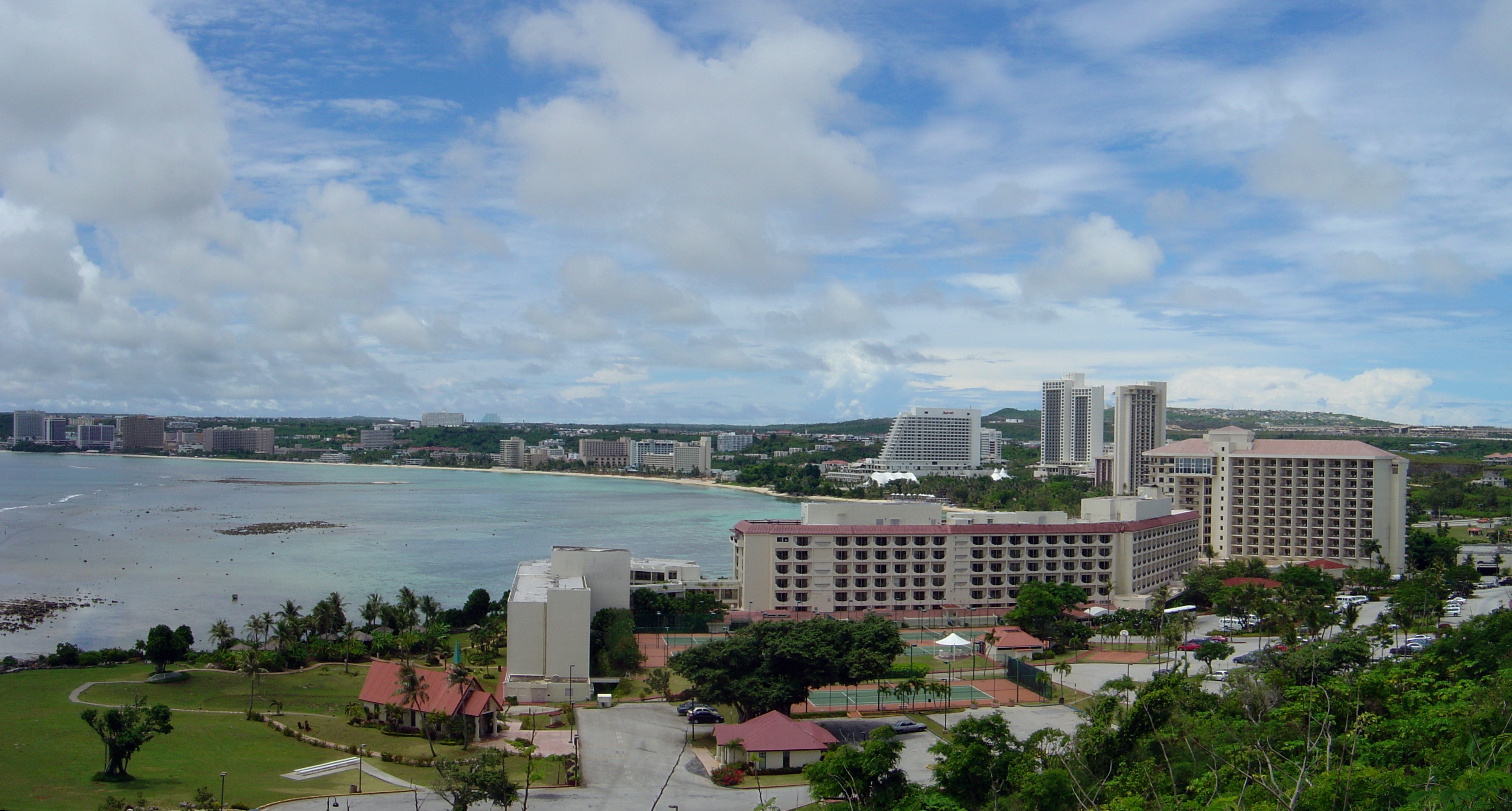 Tumon Bay resort area. Mariana Islands, Guam.